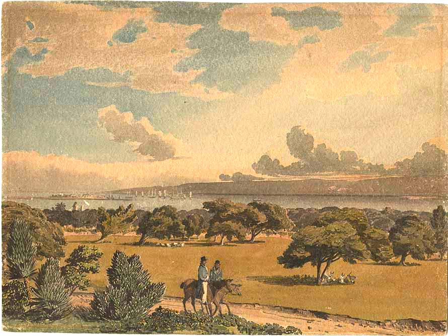 A view from Admiral's Pen, near Kingston, Jamaica. Print of watercolour by E.E. Vidal. Admiral's pen was the house of the naval officer commanding the West India station.